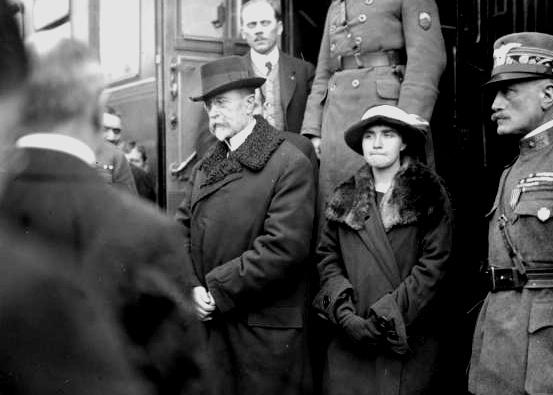 Tomáš Garrigue Masaryk – first president of Czechoslovakia leaving train on his stopover in Tábor on his return journey to Prague. To his left daughter Olga, who returned from exile with him.